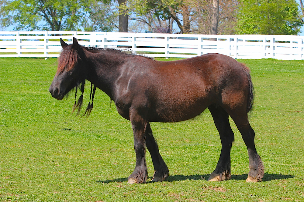 At the Kentucky Horse Park